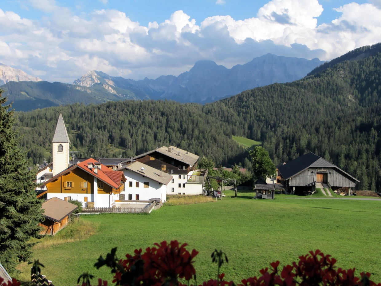 Village Untermoi, Center with Church Saint Anthony